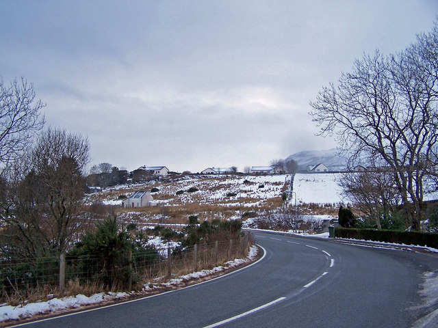 Approaching Portree The road is the A855 which goes north from Portree to Staffin and the Trotternish Peninsula